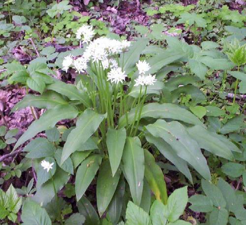 Allium ursinum, over Pisia river, in forest near Radziejowice (Poland, Masovia).